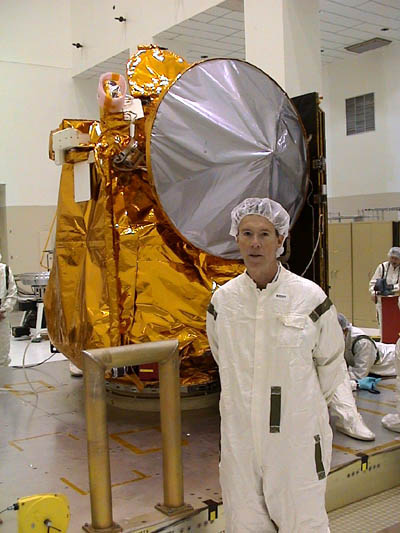 2001 Mars Odyssey's High Gain Antenna